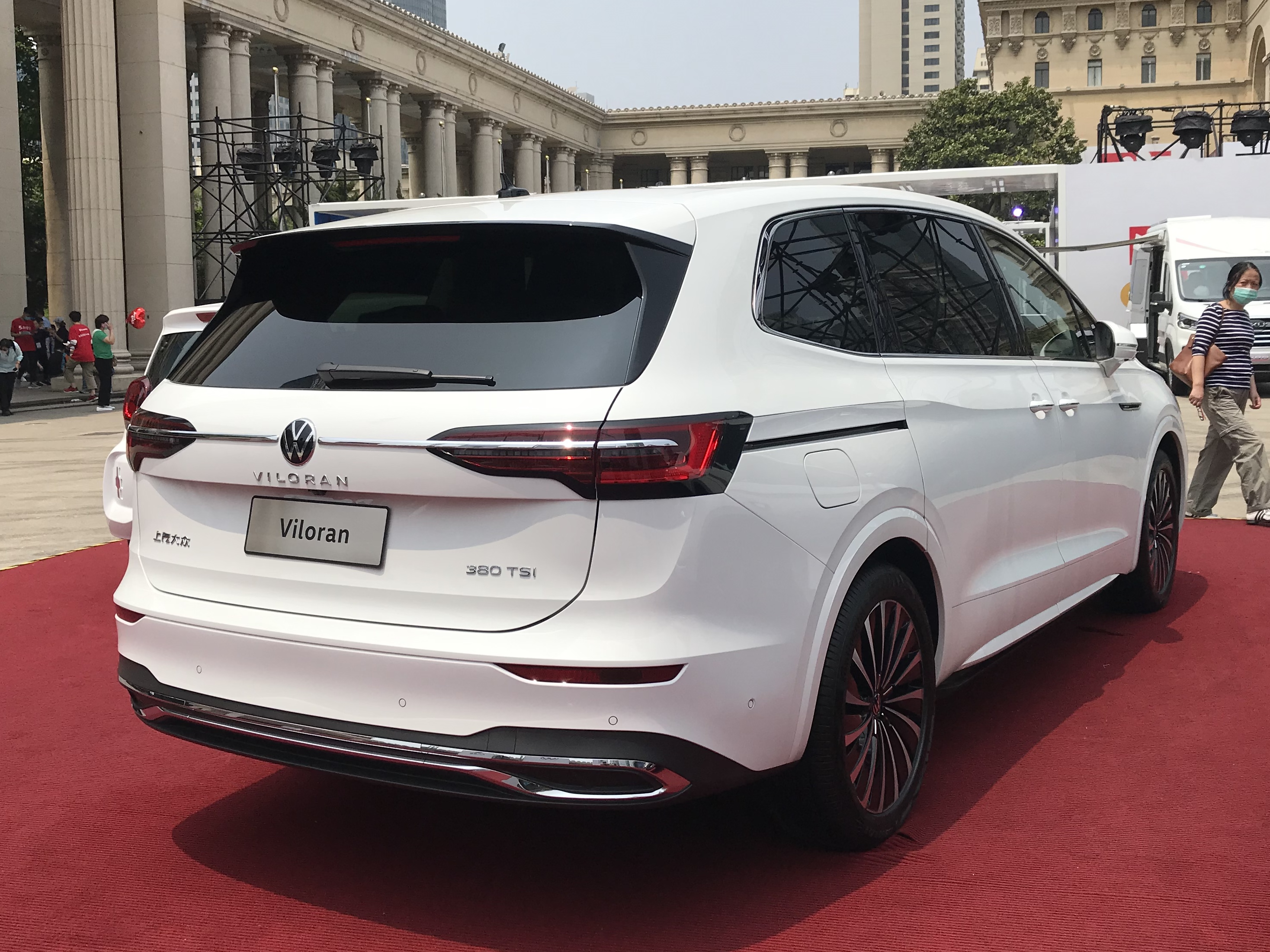 Volkswagen Viloran